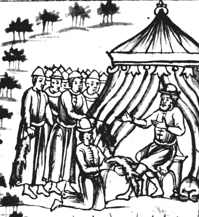 Voguls (Mansi) delivering tribute to Yermak Timofeyevich